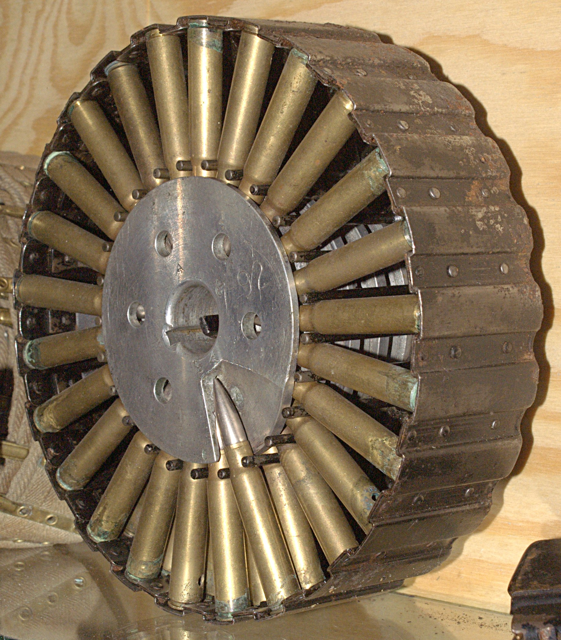 Lewis Gun magazine loaded with 7.92mm cartridges.